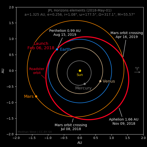 Annotated diagram of the heliocentric orbit of the Tesla Roadster launched by Spacex on the Falcon Heavy on Feb 6, 2018. Uses JPL Horizons osculating orbital elements for May 1, 2018 (obtained Feb 10, 2018). Planetary positions correspond to launch date.